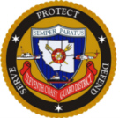 United States Coast Guard 11th District Logo (Alameda, California)